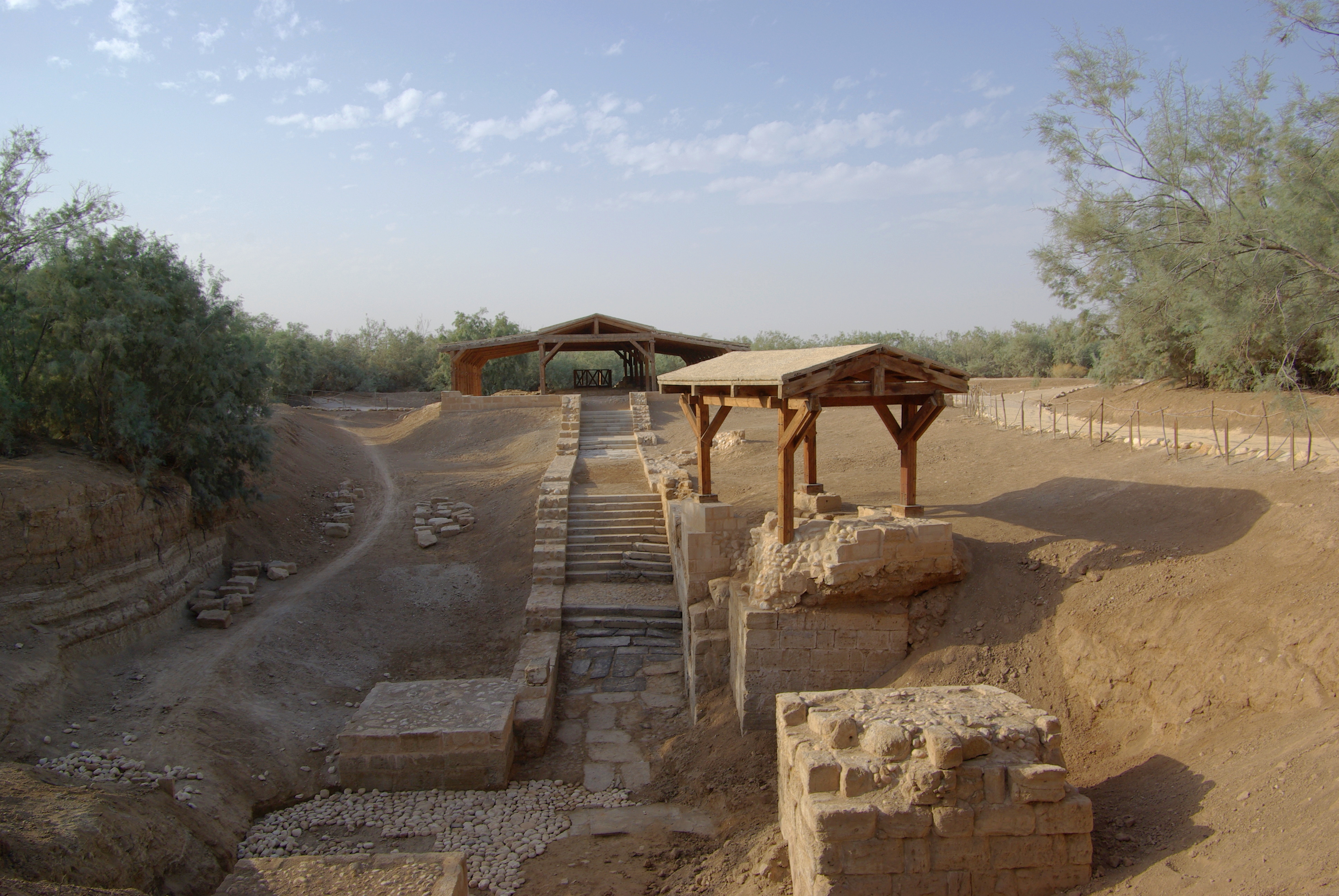 Excavation of the John the baptist church